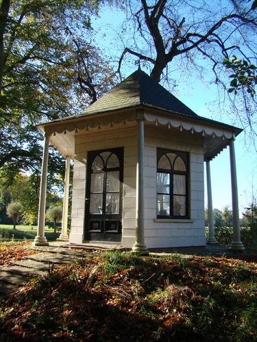 Theehouse at Bredevoort (Netherlands)